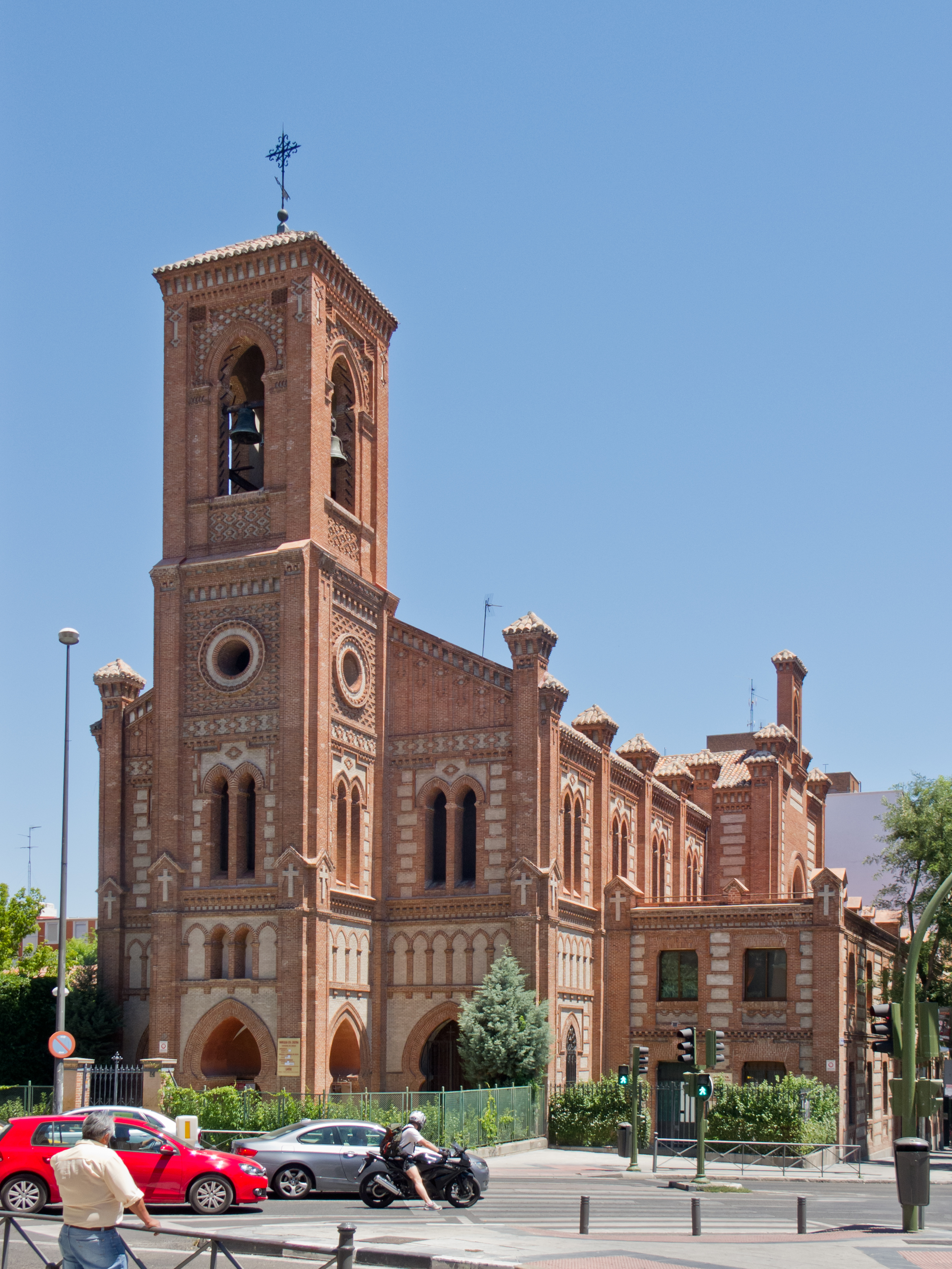 St. Cristina Church in Madrid.